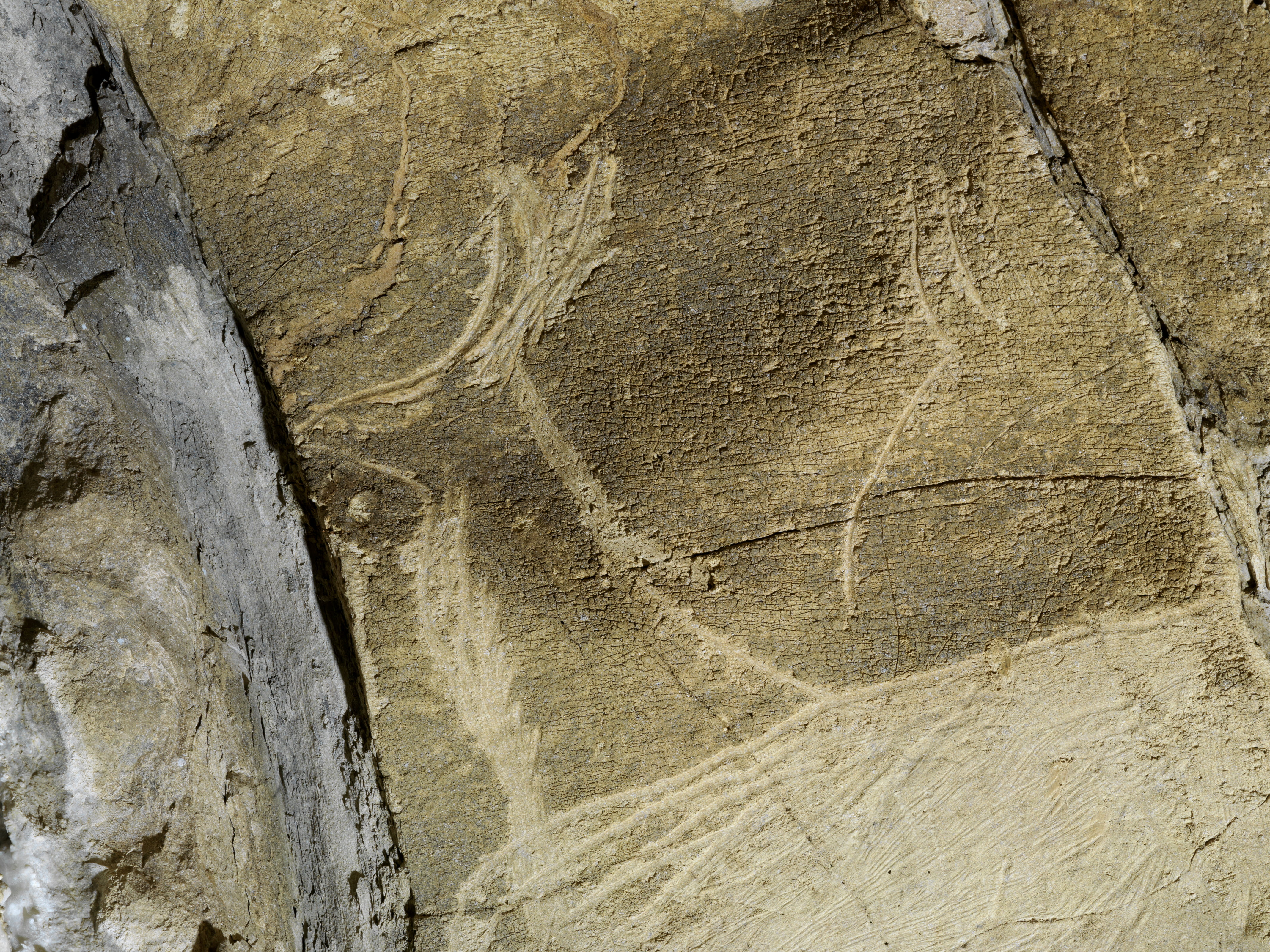 Note the part of the neck and head of a saiga antelope looking left. A bit more to the right is the front line and another saiga horns.